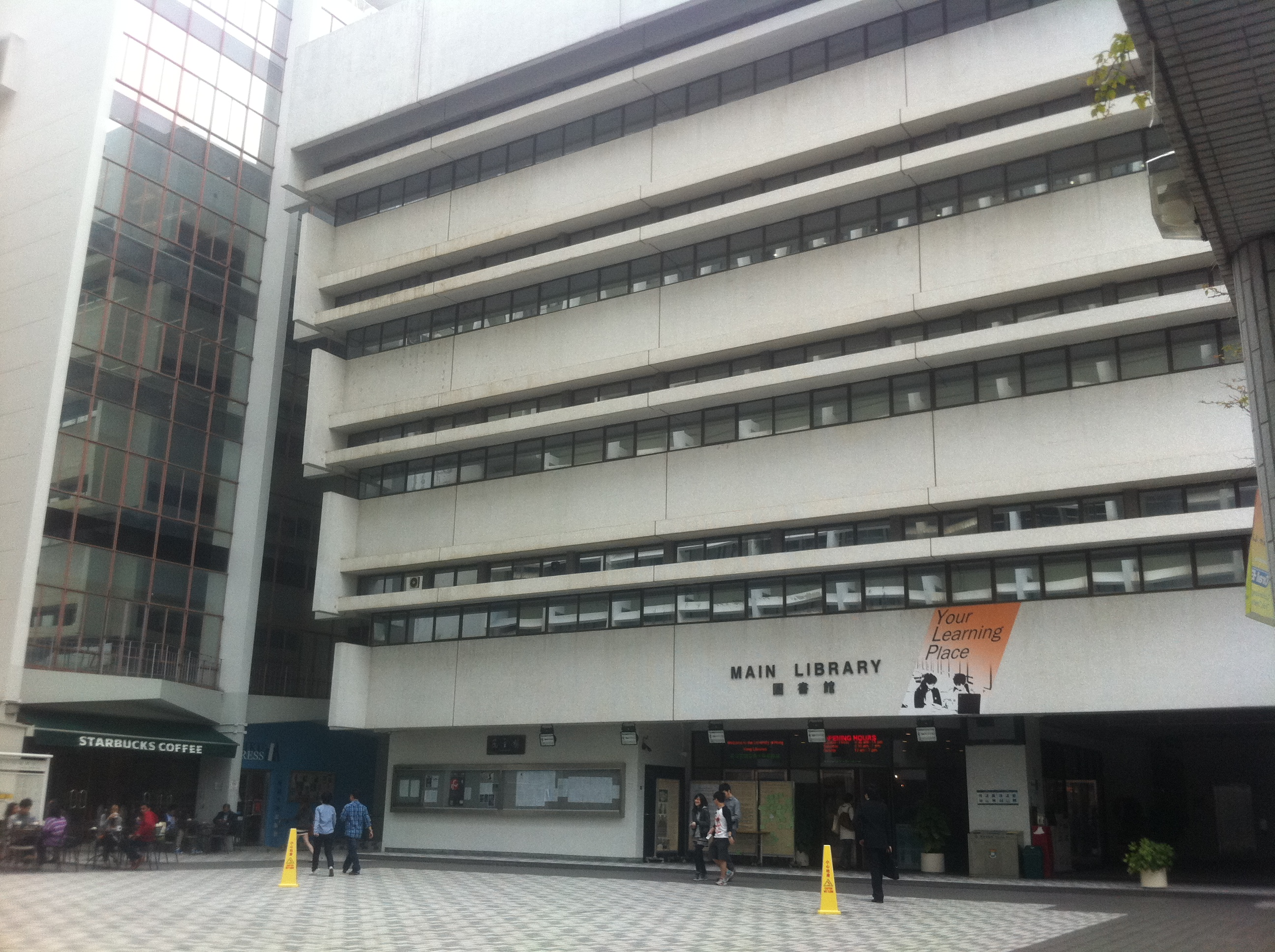 香港大學 Campus of HKU, Bonham Road, Hong Kong